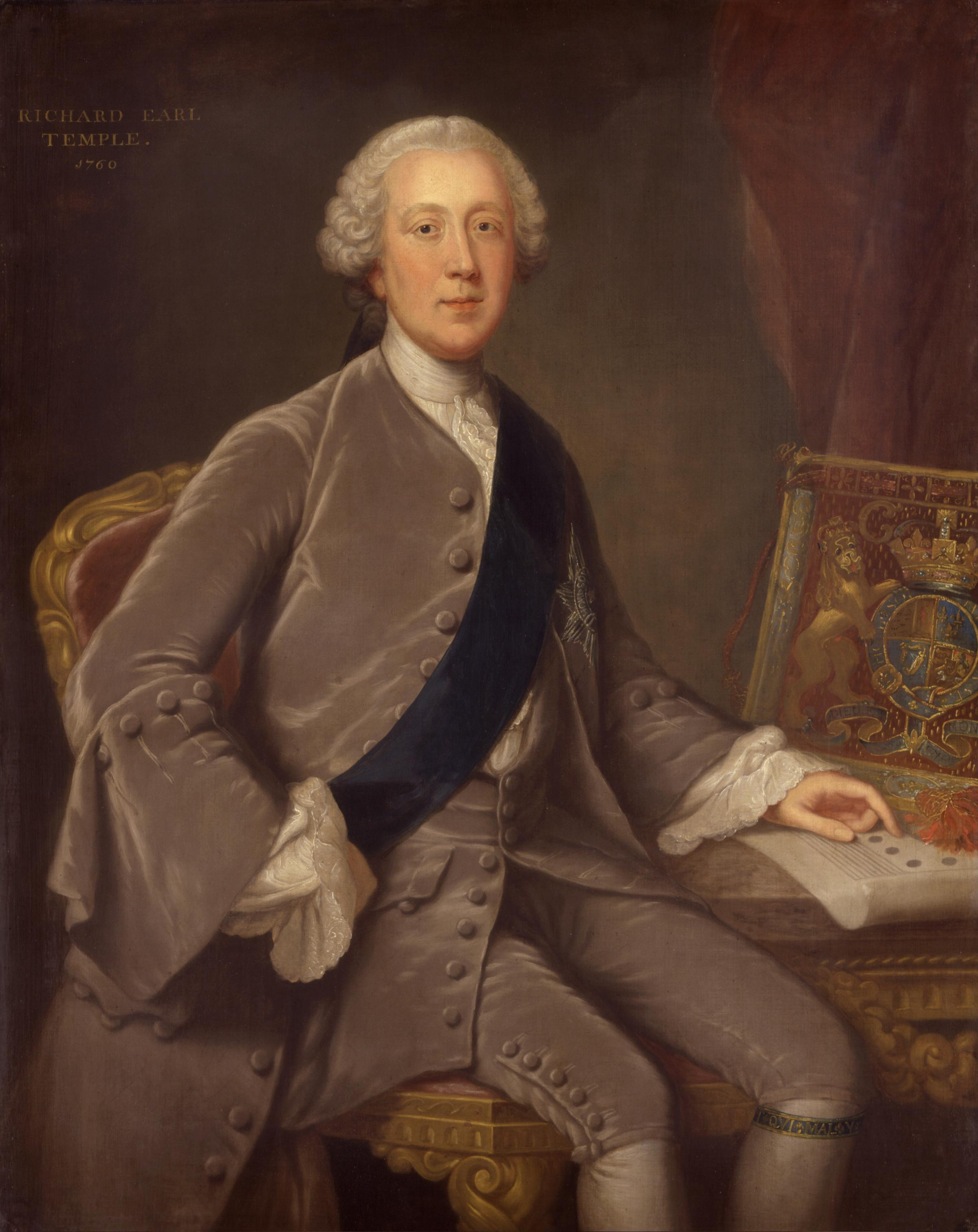 All images in this batch have been confirmed as author died before 1939 according to the official death date listed by the NPG.